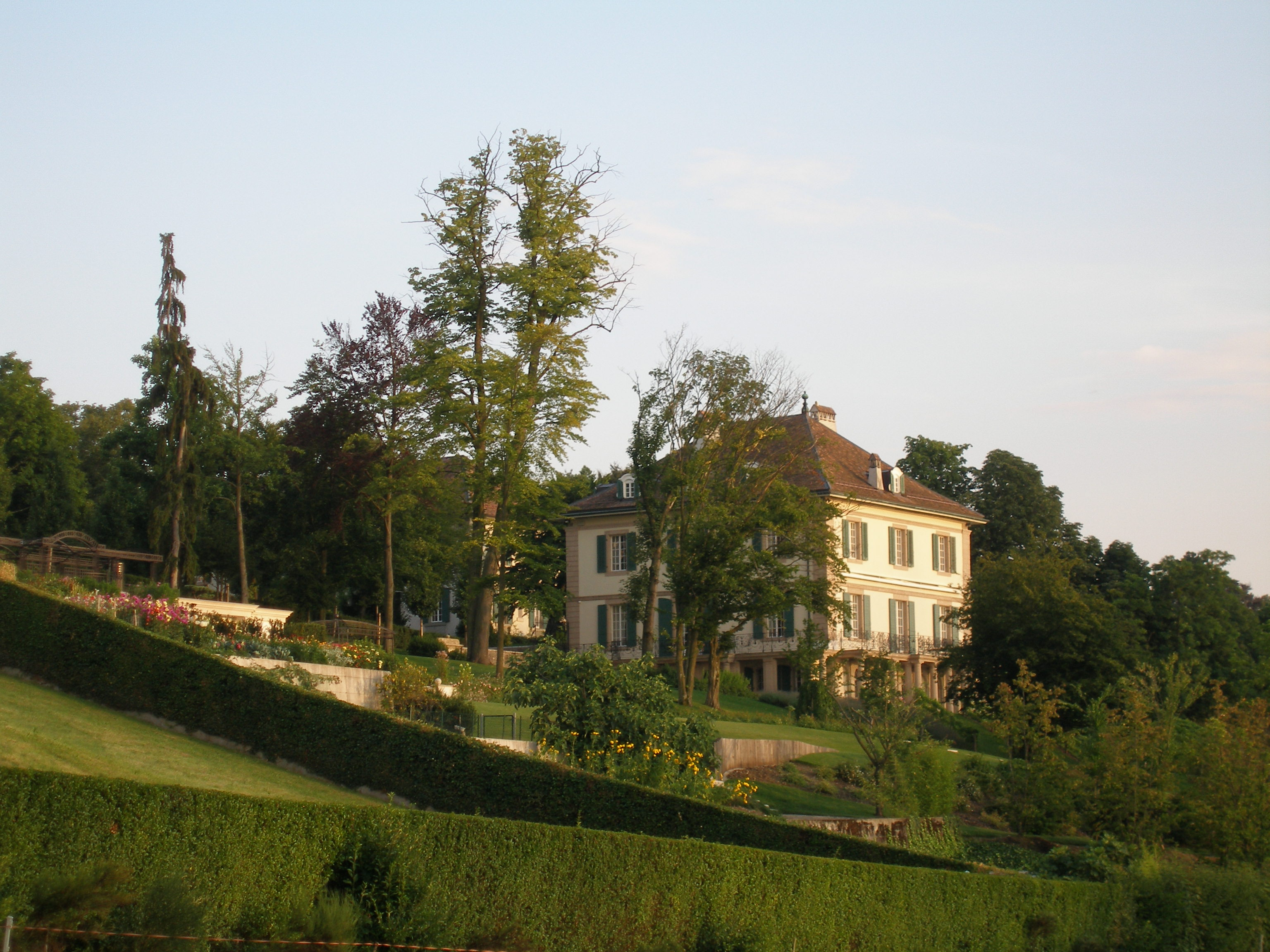 The Villa Diodati in Geneva, Switzerland 2008.07.27, view 6 out of 6